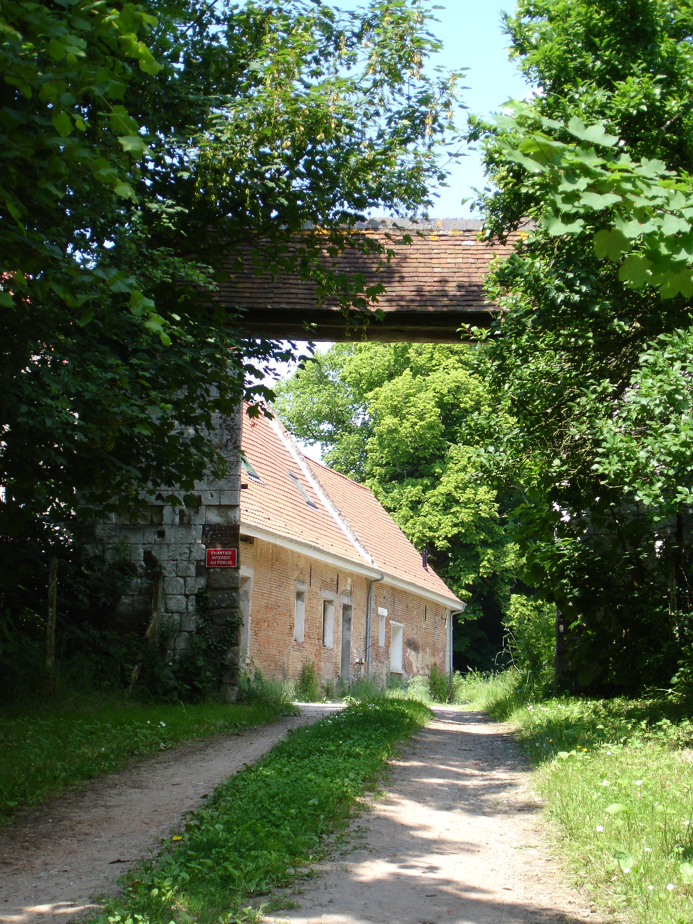 Porch with batière of the old farm of the mill of Premonstratensian in Mouriez - 1770